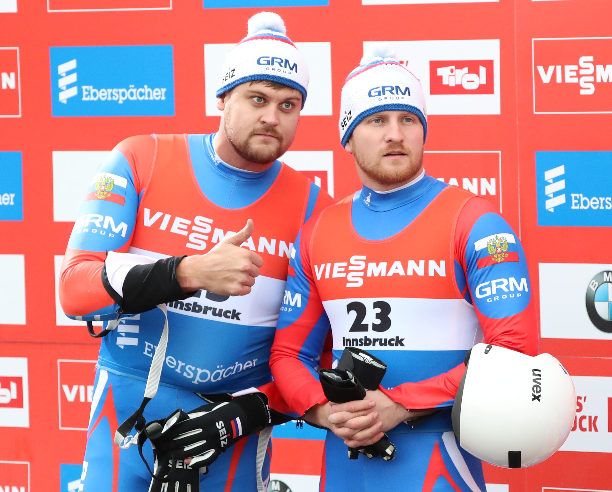 Doubles World Cup race at the 2019/20 Luge World Cup in Innsbruck-Igls